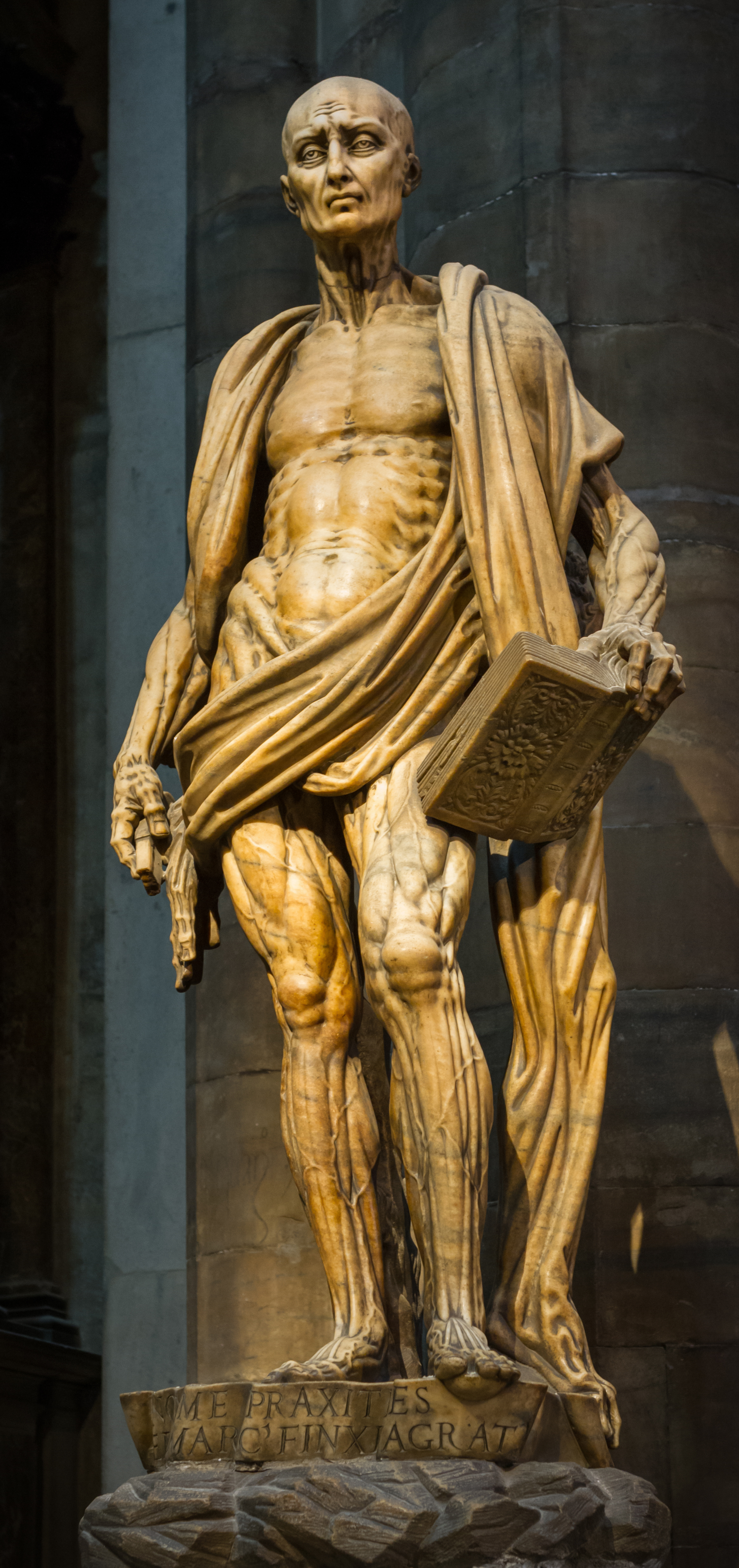 San Bartolomeo Flayed. Statue by Marco D'Agrate. Duomo, Milano (1562)